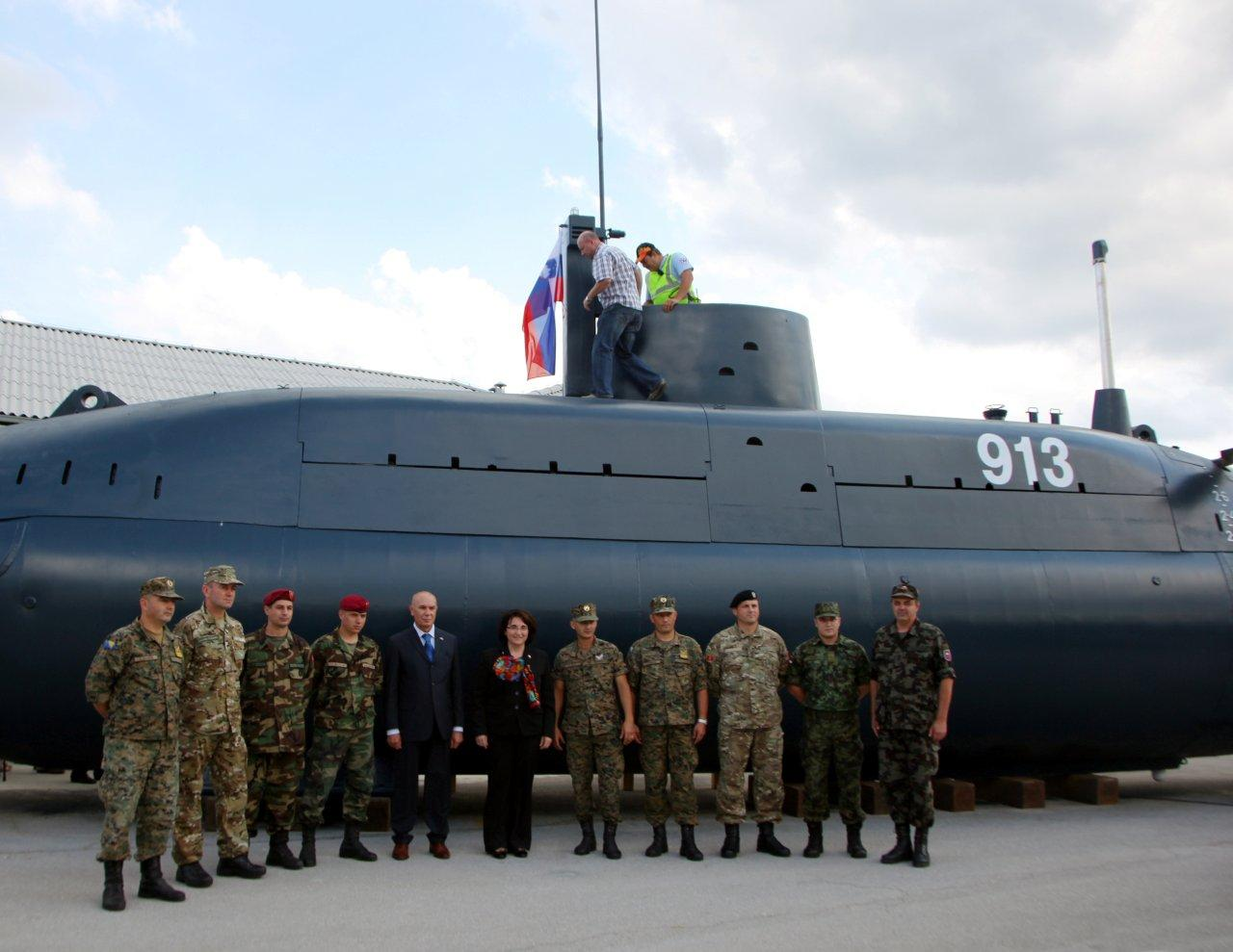 Renovated P-913 Zeta sumbarine at Pivka Military History Park